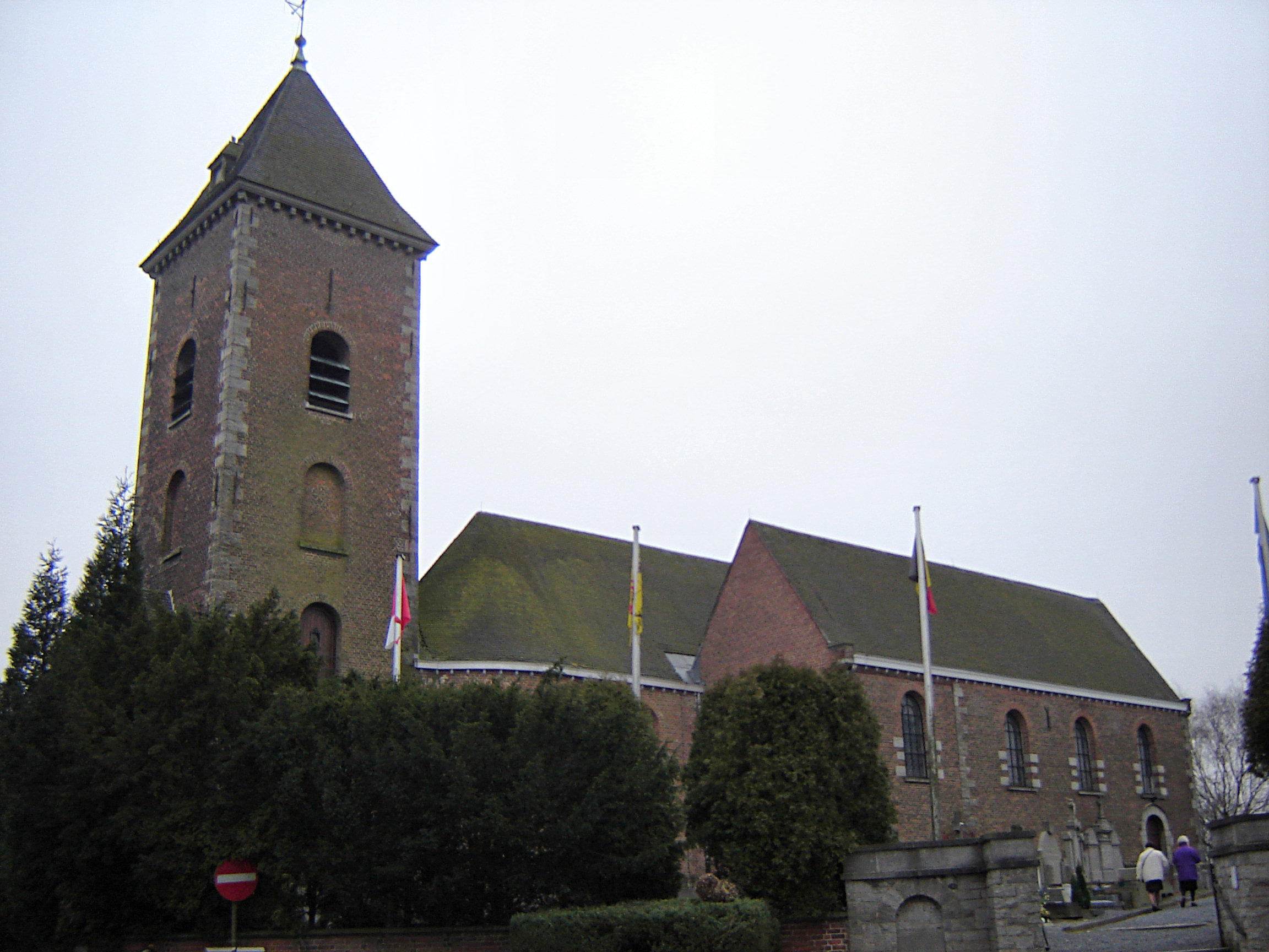 Eglise Saint-Aubert. Church of Mont-Saint-Aubert in Tournai, Hainaut, Belgium